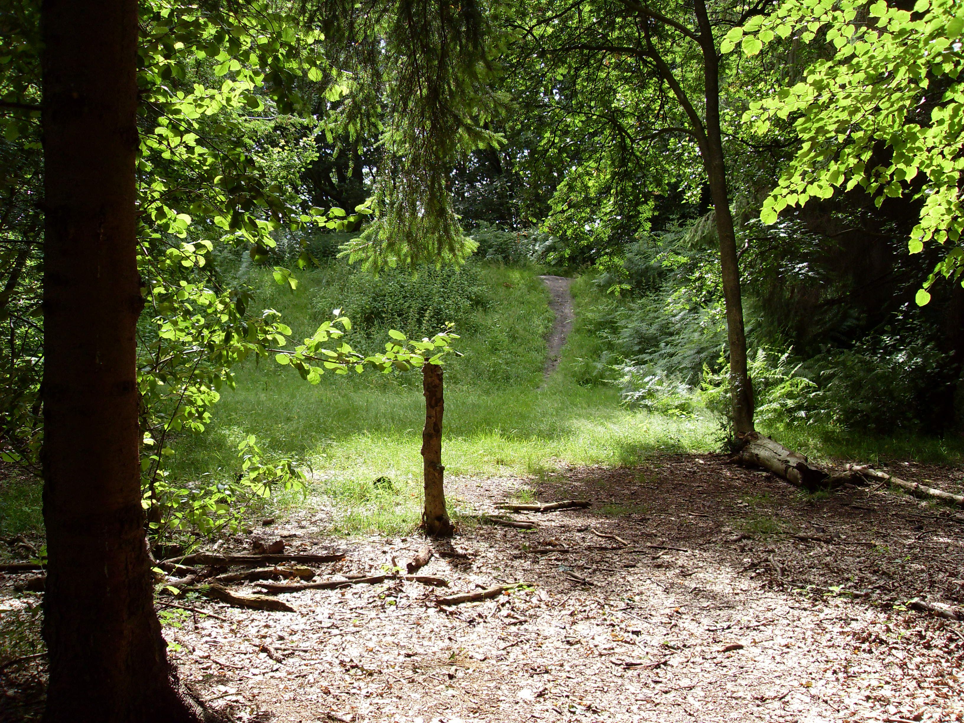 Hill fort of the Wittorfer Burg